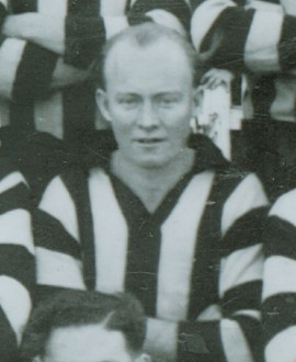 Photo of Norm Campbell in 1942